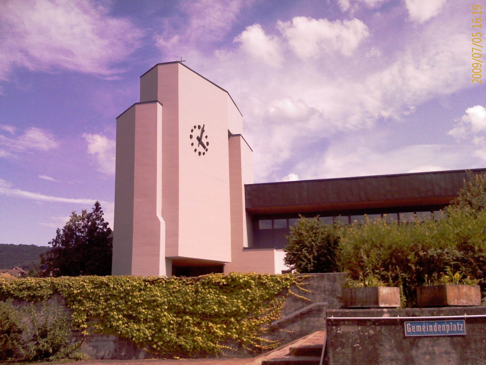 Church of Gipf-Oberfrick, canton of Aargau, SwitzerlandEsperanto: Preĝejo de Gipf-Oberfrick, Kantono Argovio, Svislando